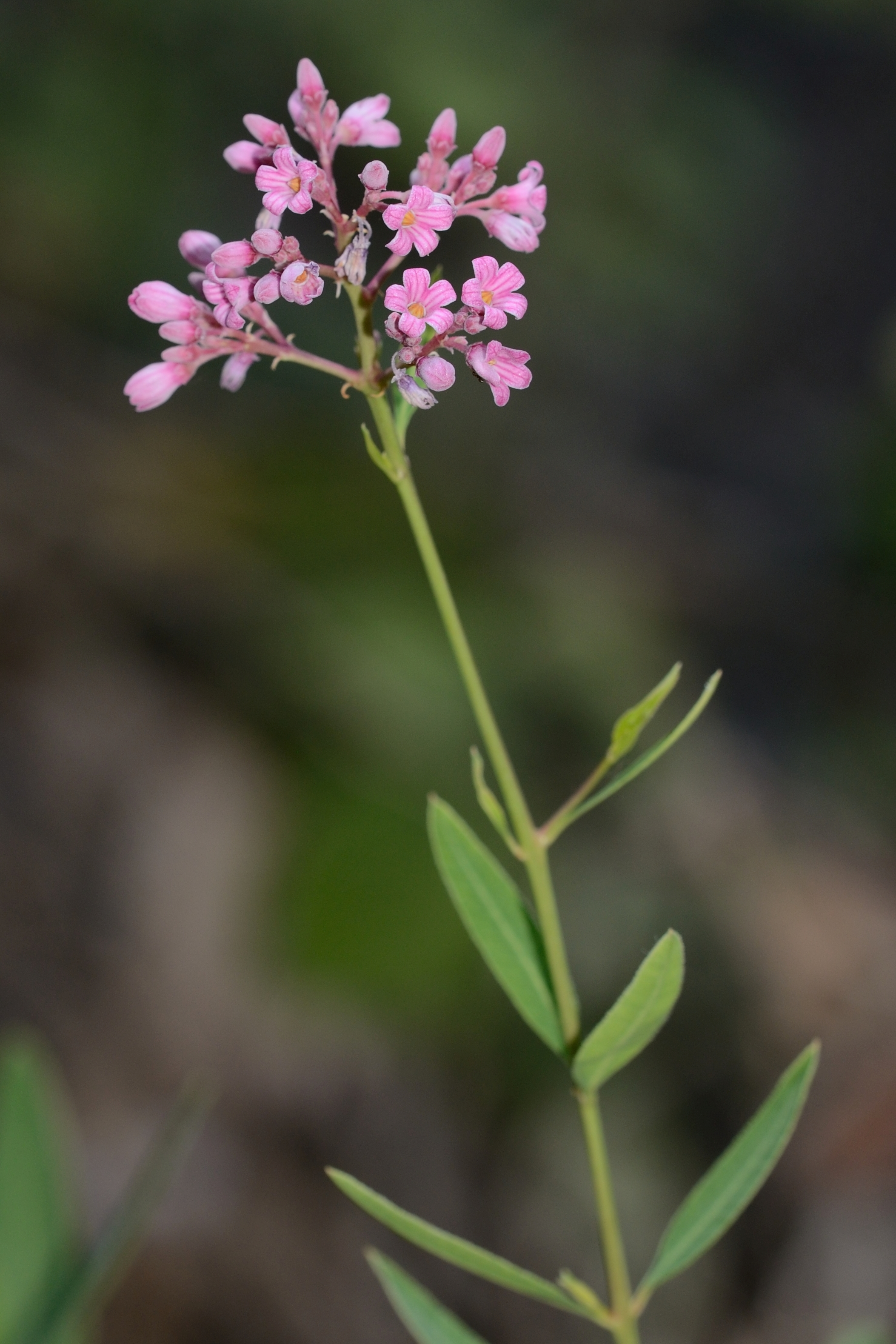 Apocynum venetum L. (syn. Trachomitum venetum (L.) Woodson), Karei Na'aman Nature Reserve, Akko Valley, Israel, July 20, 2014.